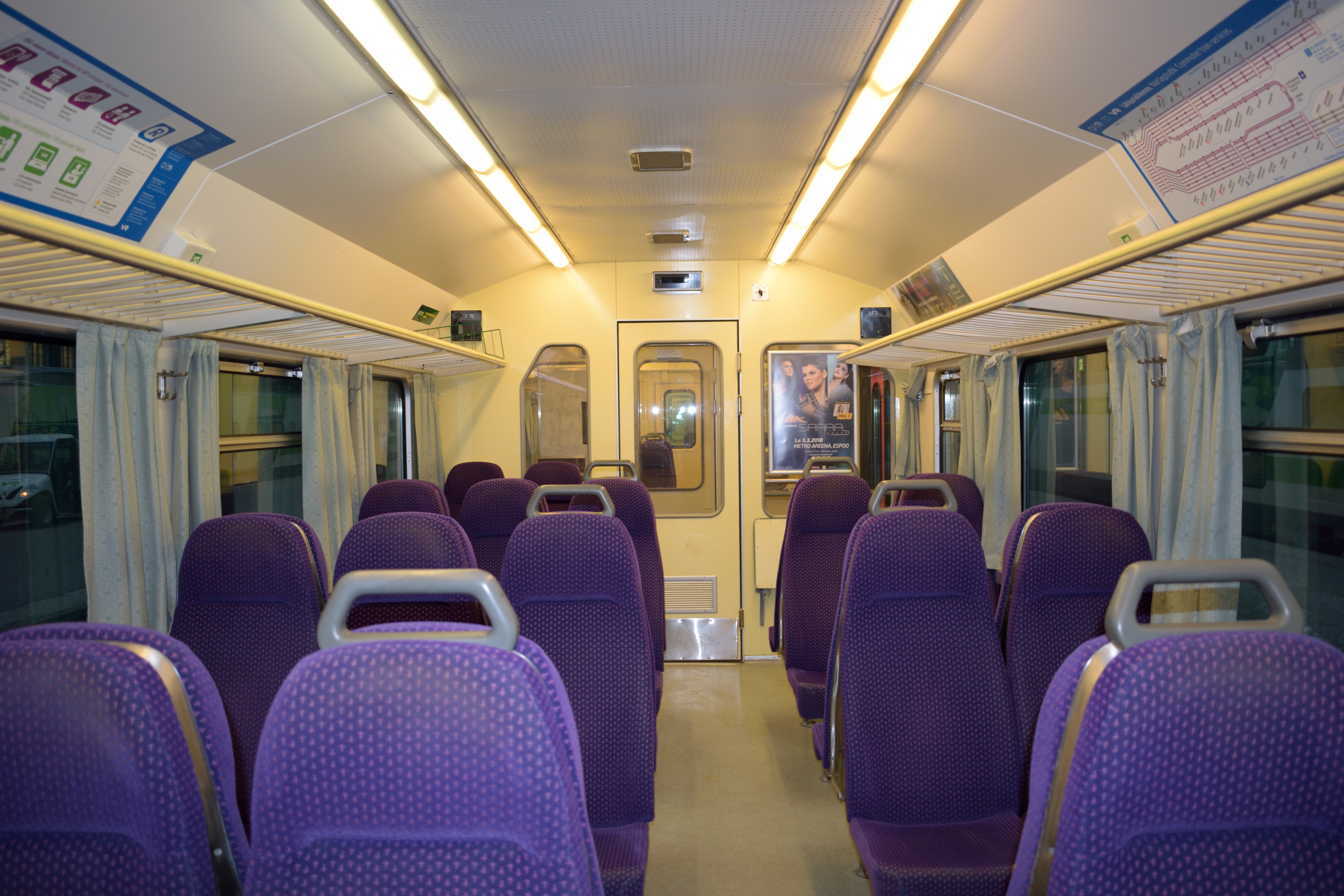 Renovated interior of VR Sm2 electric multiple unit